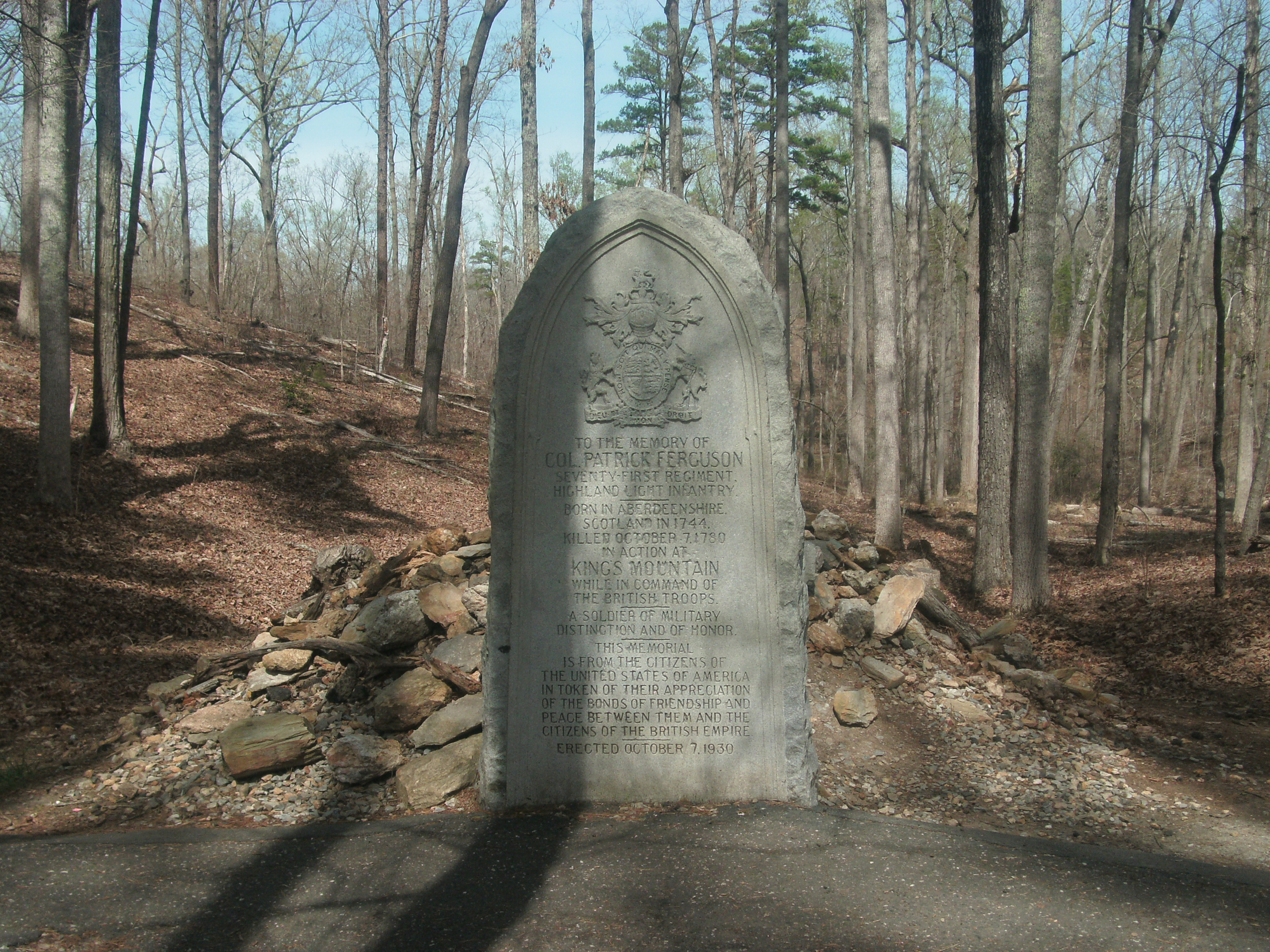 Taken by me in 2015 GEDSC DIGITAL CAMERA